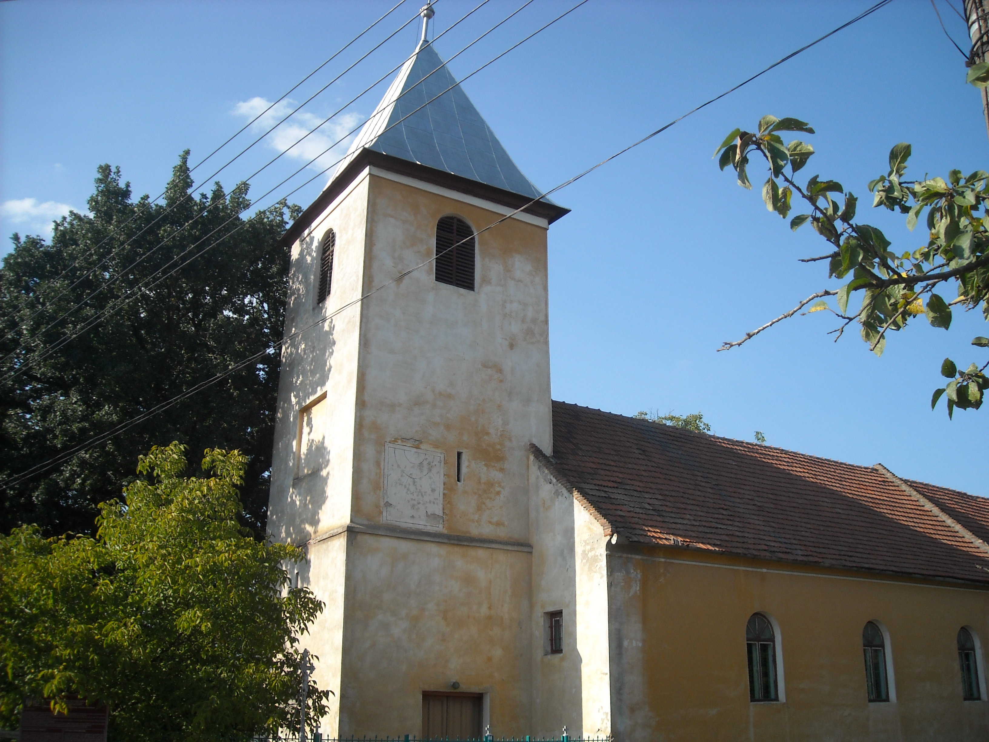 Franciscan church in Vințu de Jos (Alvinc), Romania